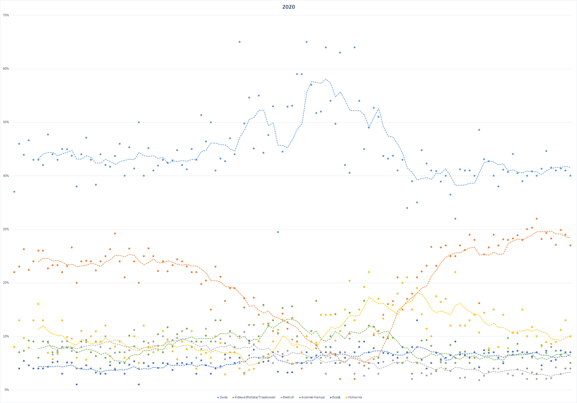 A9999999999